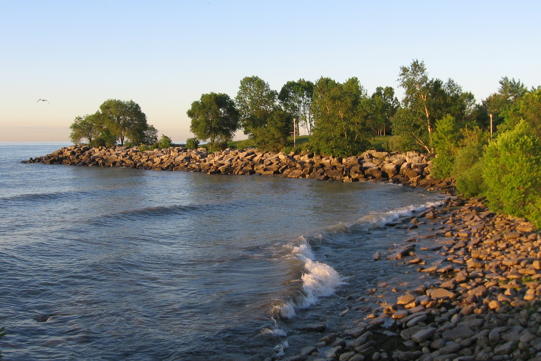 At the Scarborough Bluffs. Toronto, Canada.